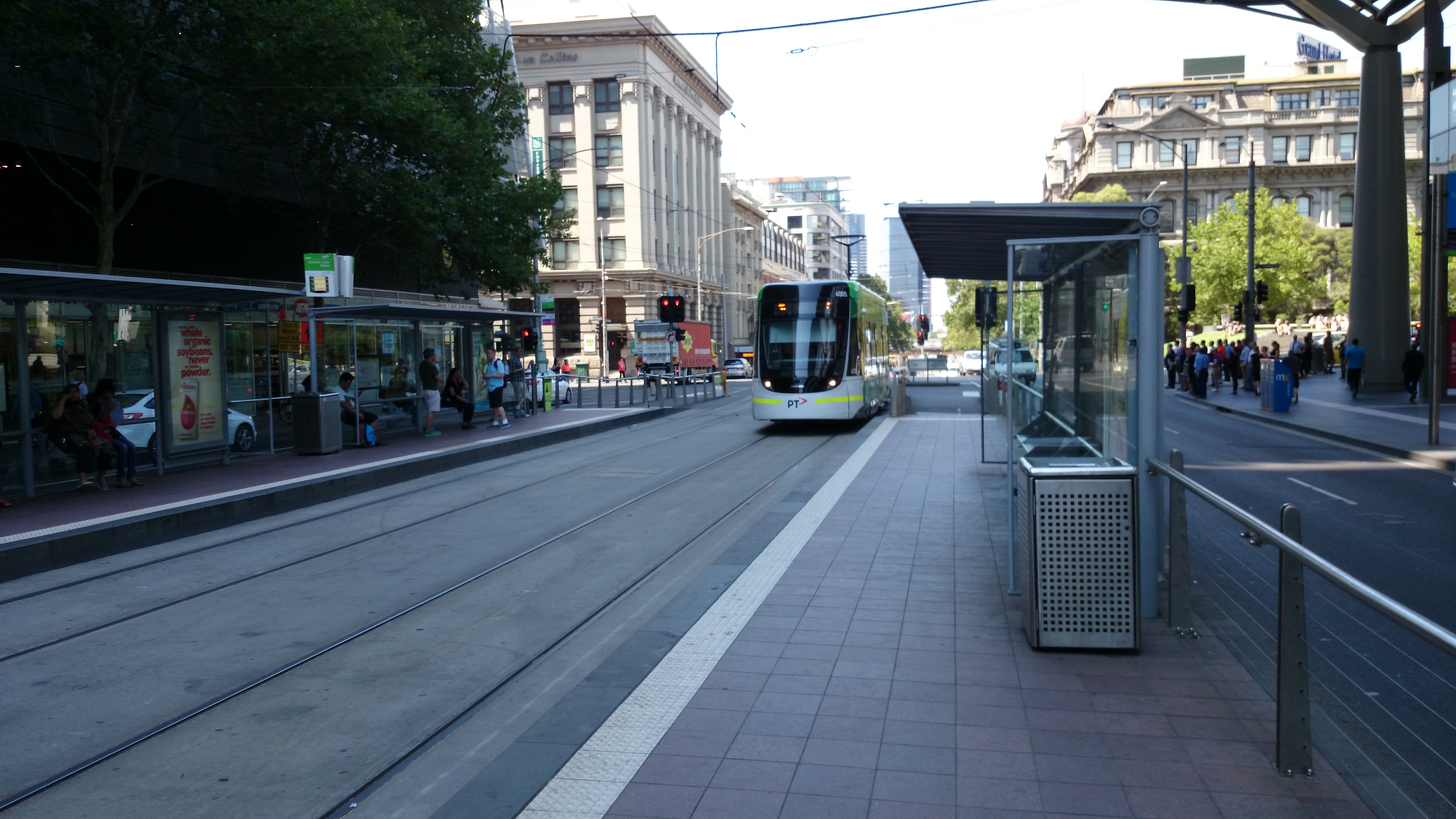 E 6005 tram arriving at the Southern Cross tram stop on the St Kilda to East Brunswick route 96.